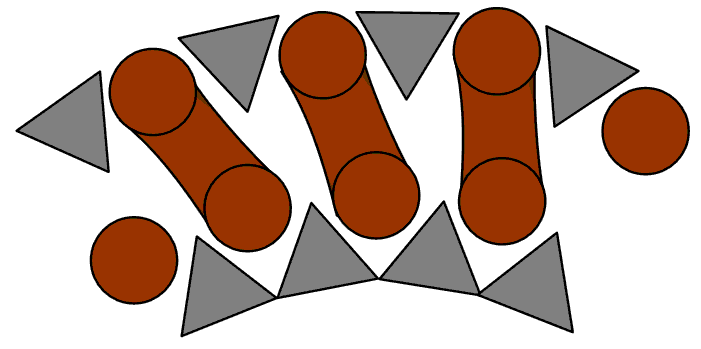 Princip of a goosneck construction (bent).